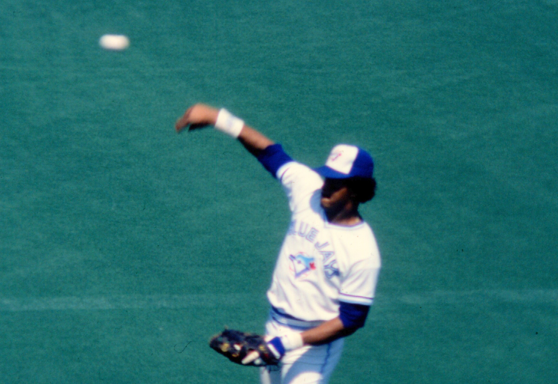 Toronto Blue Jays outfielder George Bell at Exhibition Stadium, 1985.